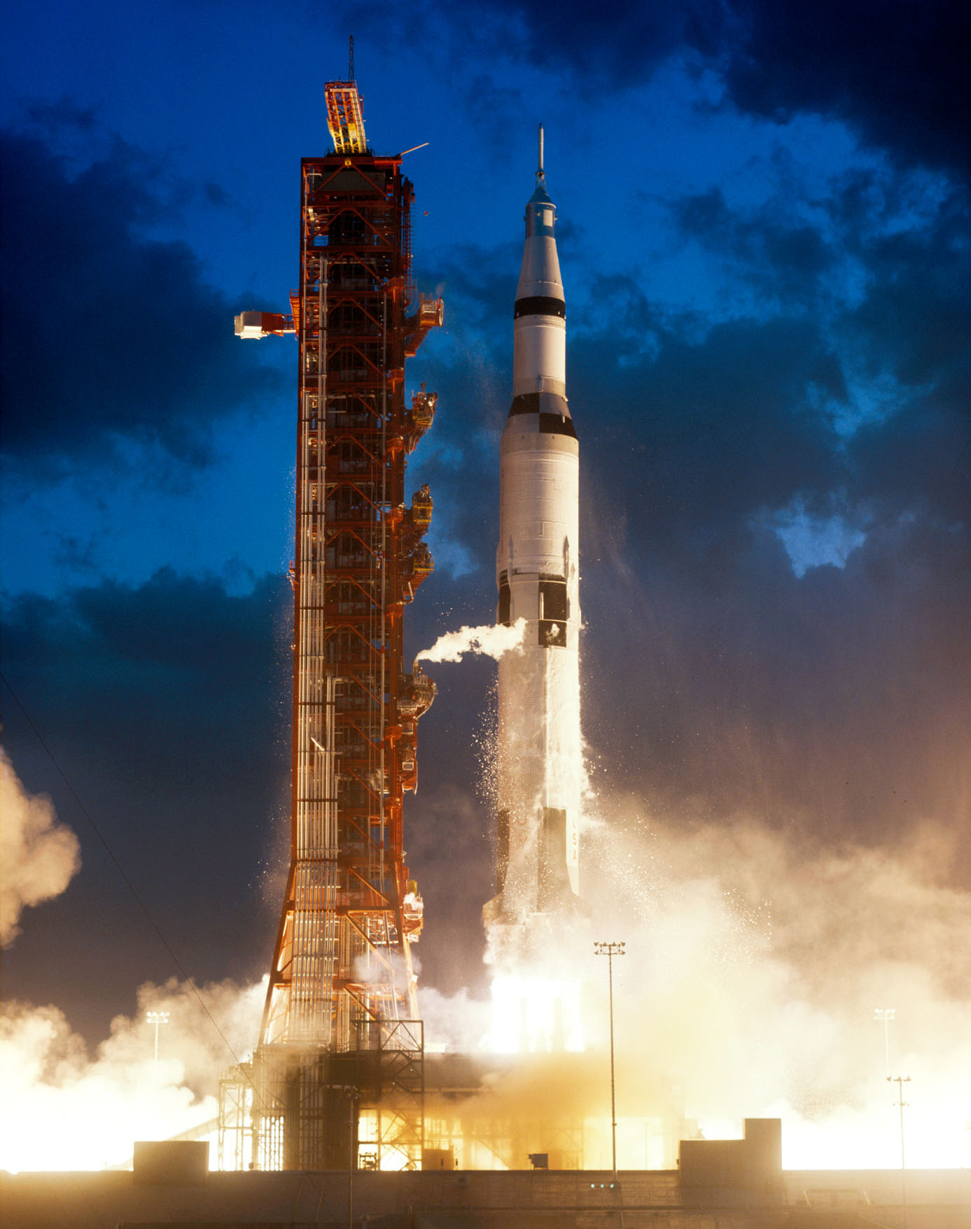 This week in 1967, the Apollo 4 mission launched from NASA’s Kennedy Space Center. The mission marked the first launch of the Saturn V rocket. Mission objectives included testing of structural integrity, compatibility of rocket and spacecraft, heat shield and thermal seal integrity, overall reentry operations, launch loads and dynamic characteristics, stage separation, rocket subsystems, the emergency detection system and mission support facilities and operations. All mission objectives were achieved. NASA's Marshall Space Flight Center designed, developed and managed the production of the Saturn family of rockets that took astronauts to the Moon. Today, Marshall is developing NASA's Space Launch System, the most powerful rocket ever built, capable of sending astronauts to the Moon, Mars and deeper into space than ever before. The NASA History Program is responsible for generating, disseminating and preserving NASA’s remarkable history and providing a comprehensive understanding of the institutional, cultural, social, political, economic, technological and scientific aspects of NASA’s activities in aeronautics and space